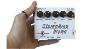 StompAmp is a new category of guitar amplifiers built to be the hearth of the pedalboard. 30W power, from the classic clean all the way up to the stunning overdrive